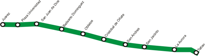 Map of Line 2 of the Guadalajara light rail system. Line 2 is entirely underground and uses three-car trains, making it more like a conventional metro than line 1.